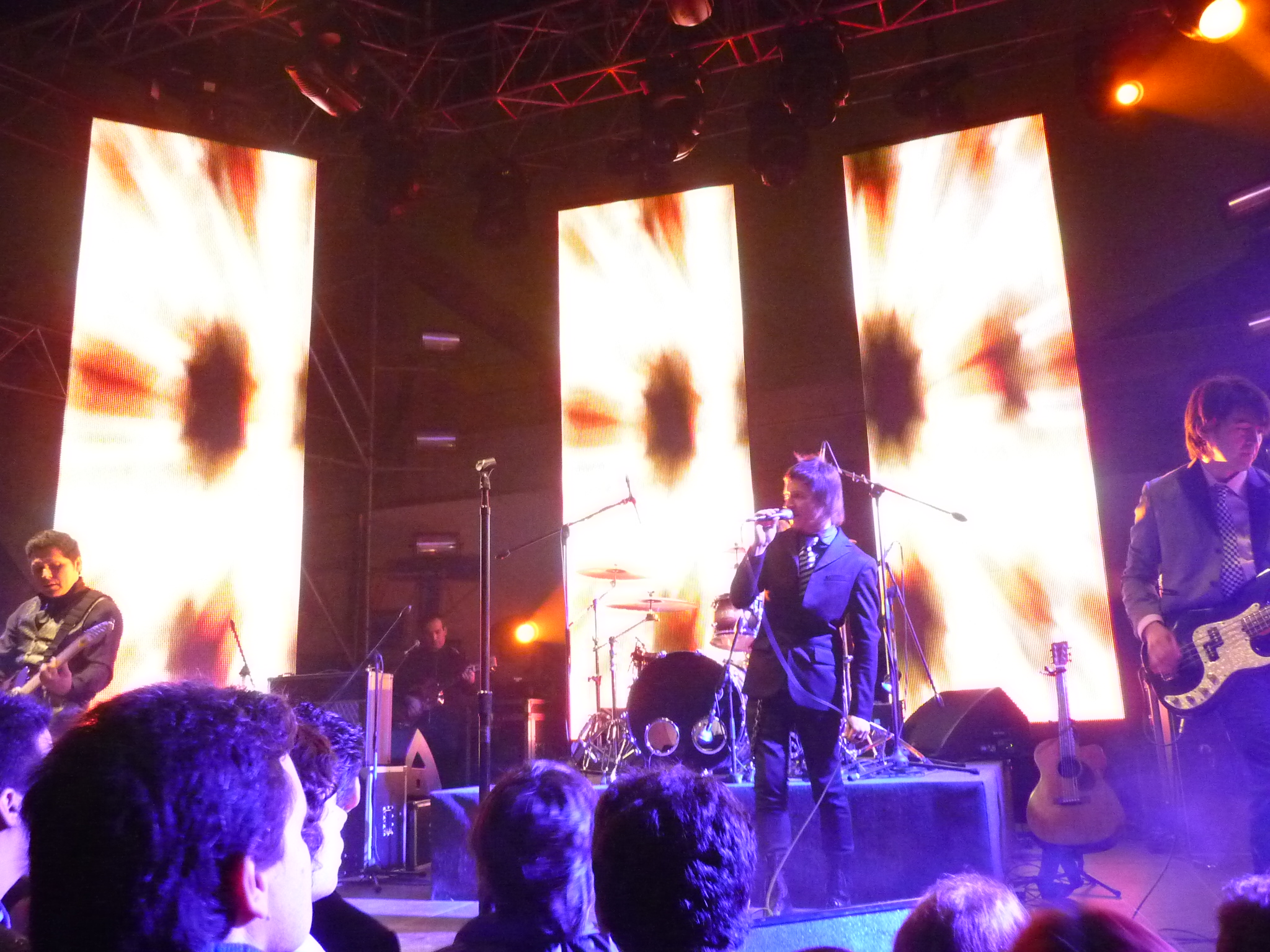 Líbido in the debut of their album "Un Día Nuevo"